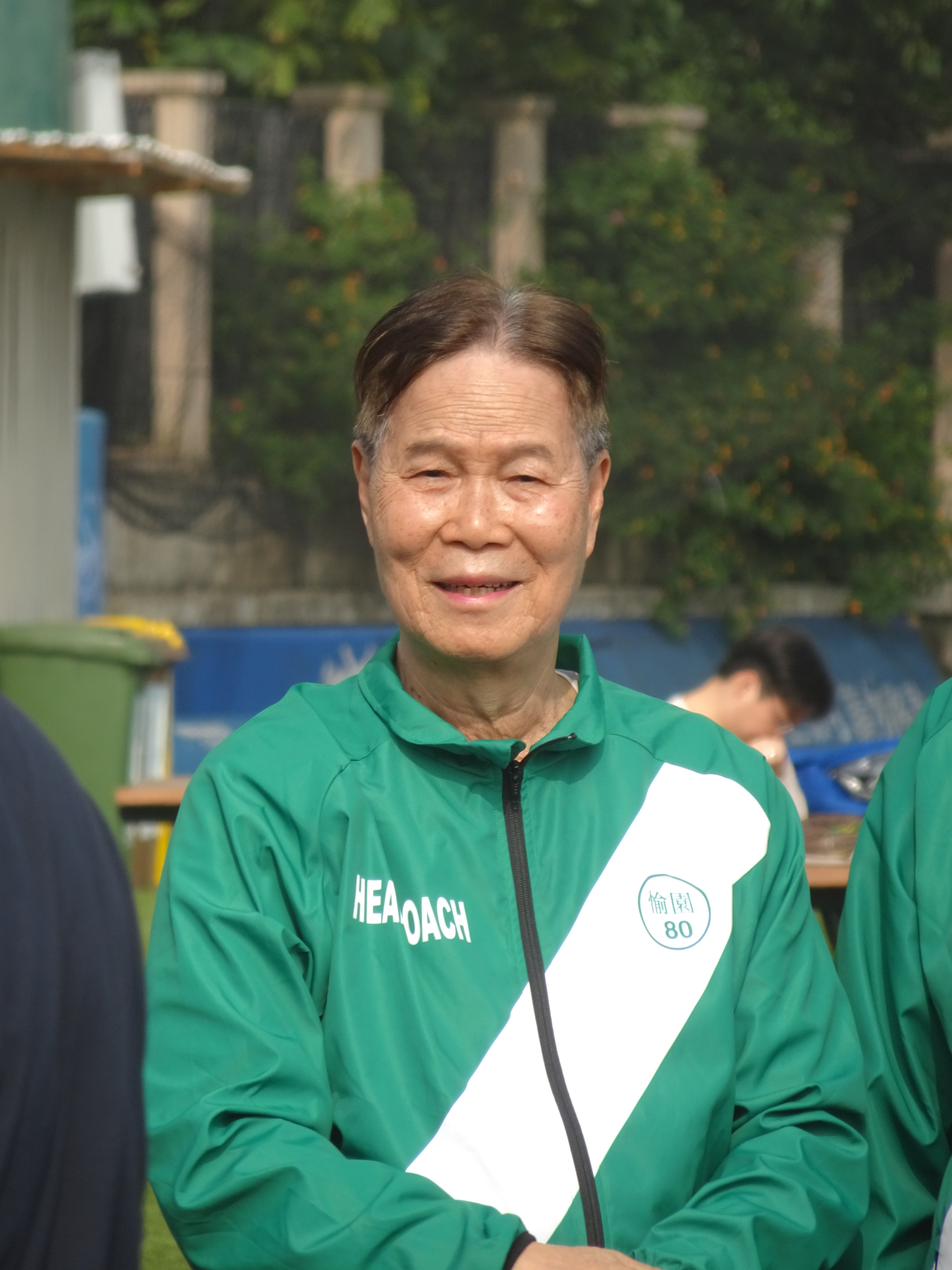 Lo Tak Kuen (12 Jan 2019, Friendly, USRC vs Happy Valley 80, King's Park Sports Ground)